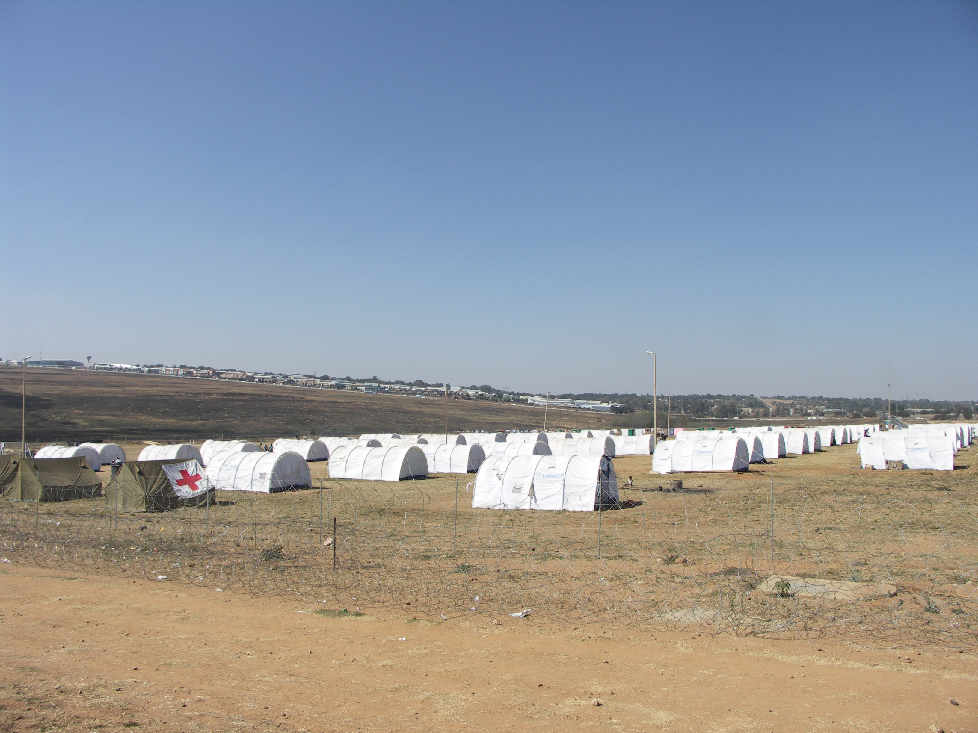 UNHCR tents at a refugee camp following episodes of xenophobic violence and rioting during 2008 Olifantsfontien road, Midrand, Johannesburg, South Africa